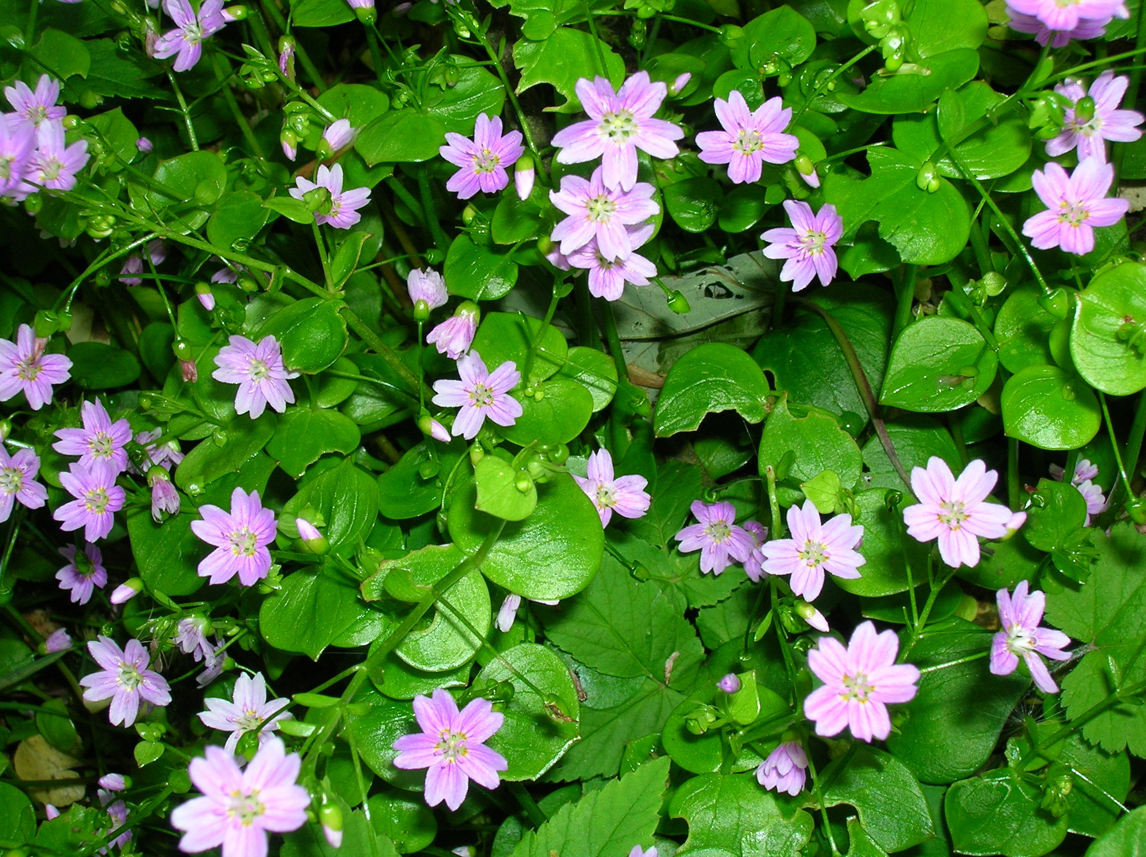 Pink Purslane (Claytonia sibirica). Eglinton, North Ayrshire, Scotland.